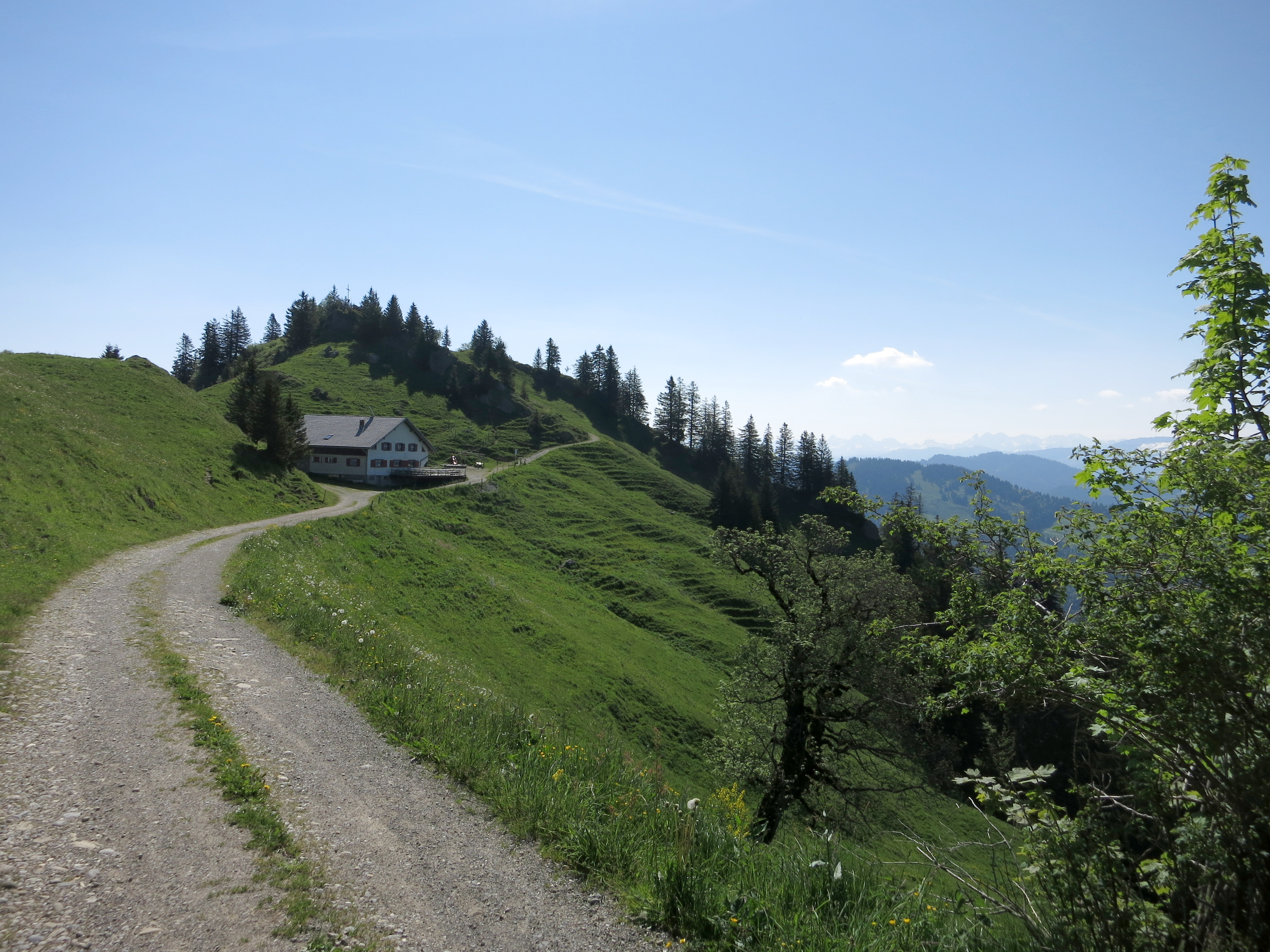 Mountain Hochhaederich, way to top